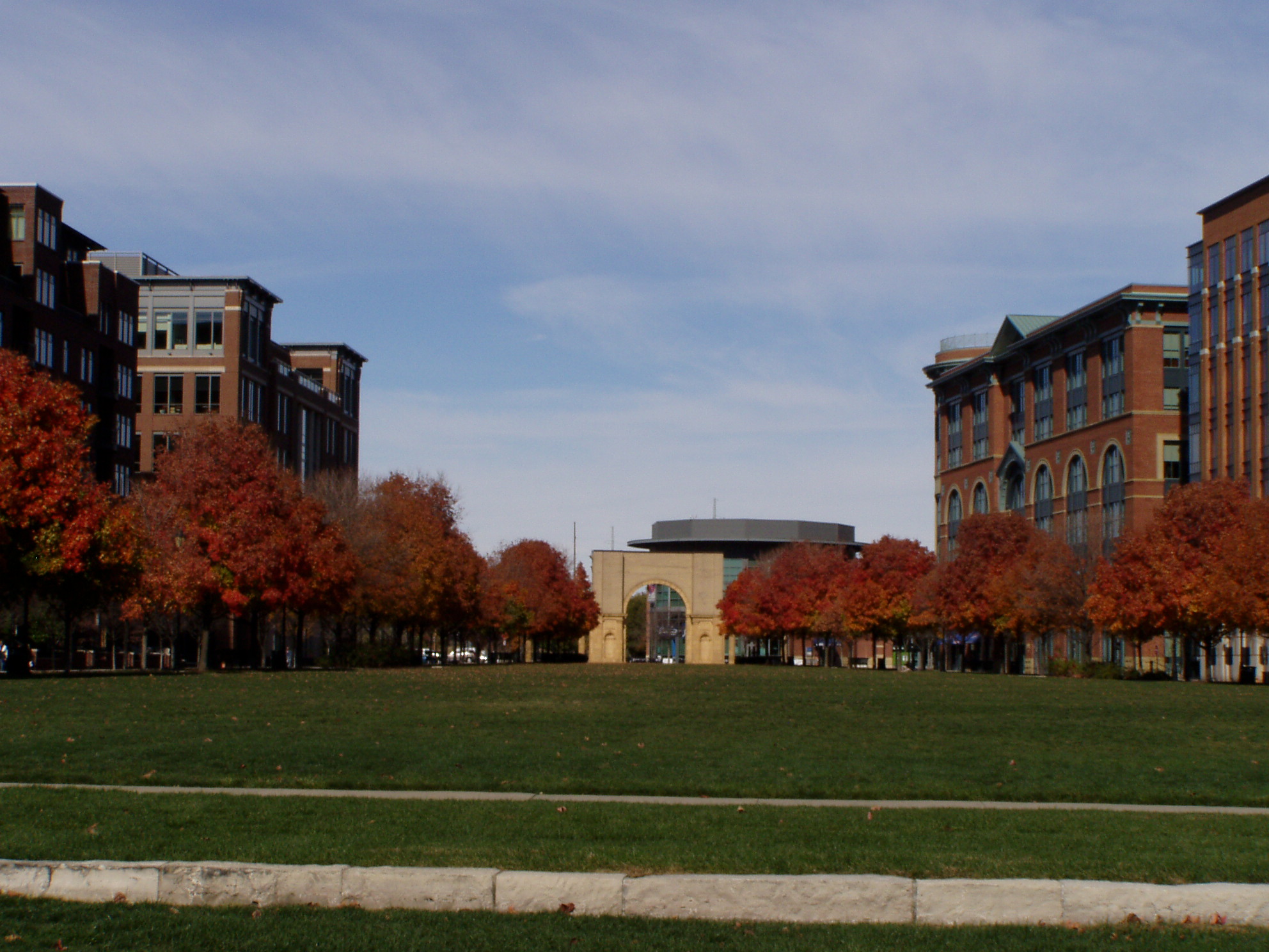 McFerson Commons, known locally as Arch Park